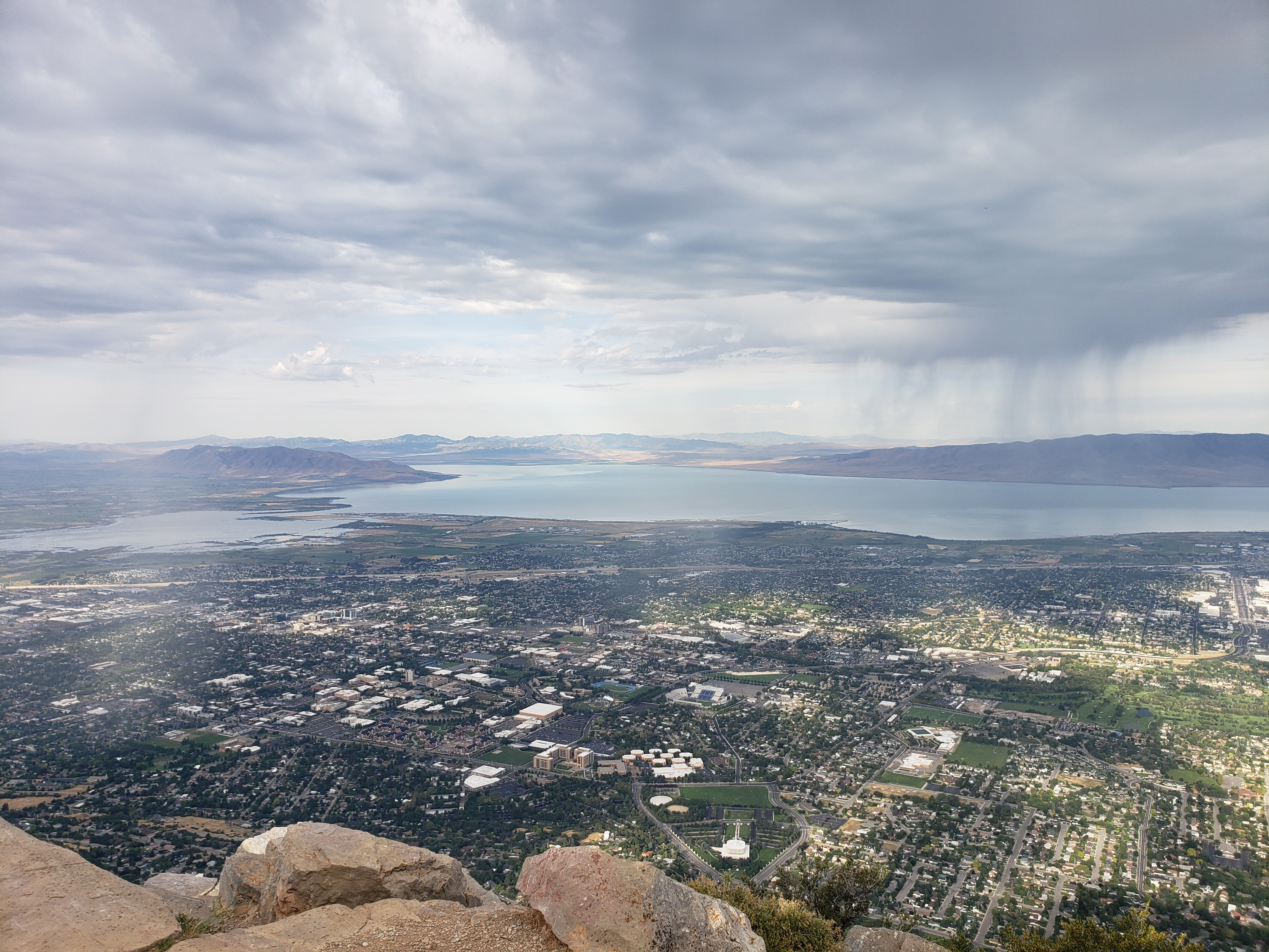 As seen from Squaw Mountain